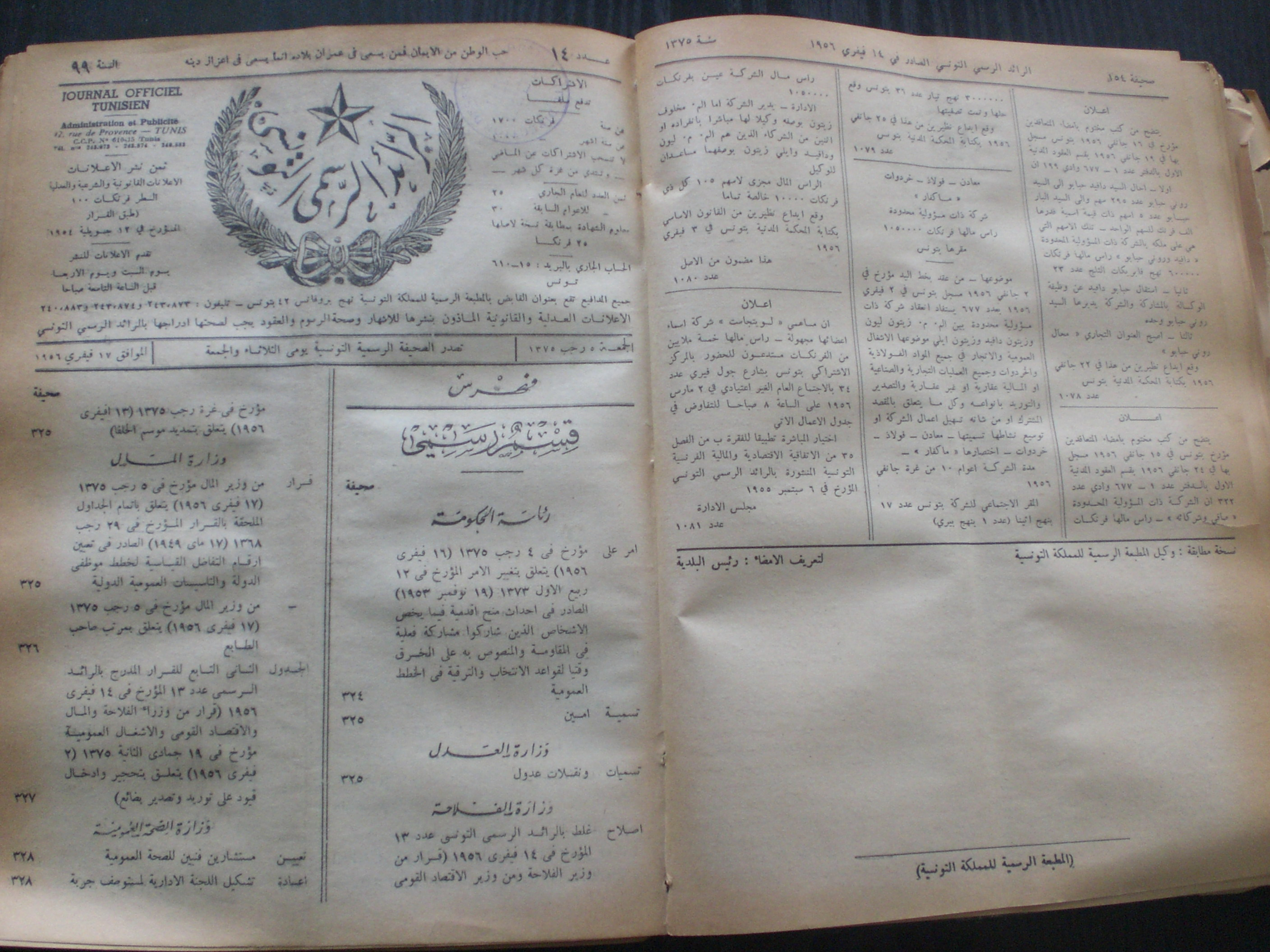 An Anciant issue of the Official Journal of Tunisia (February 1956)